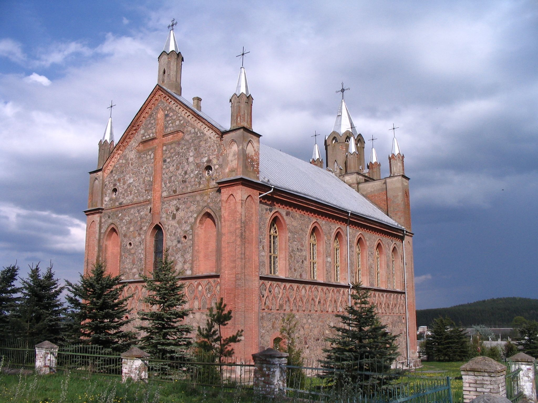 Church of Saints Apostles Peter and Paul in Župrany, Belarus.